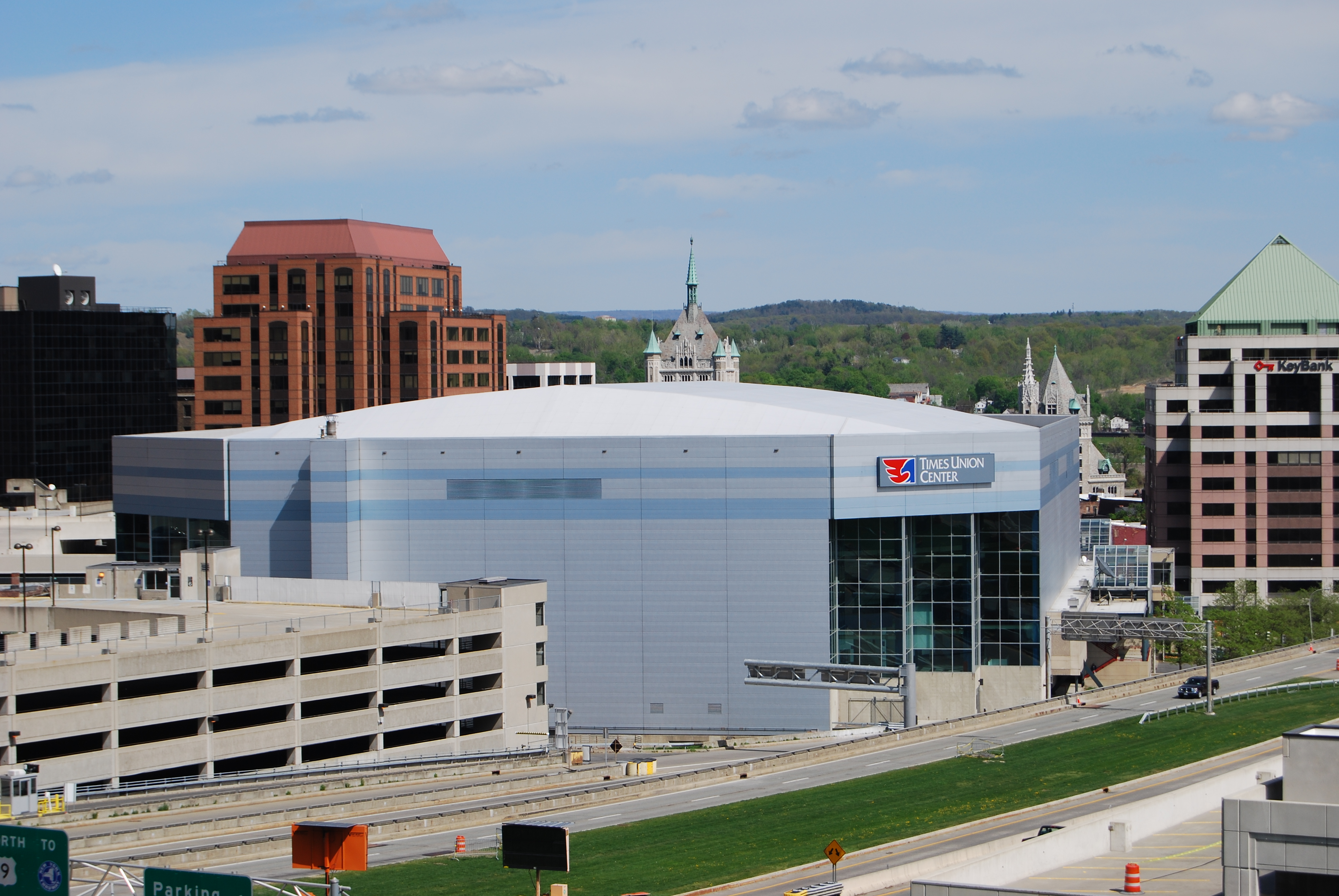 The Times Union Center in Albany, New York, named for the local newspaper, the Times Union (owned by the Hearst Corporation), located on South Pearl Street and just east of the Empire State Plaza.